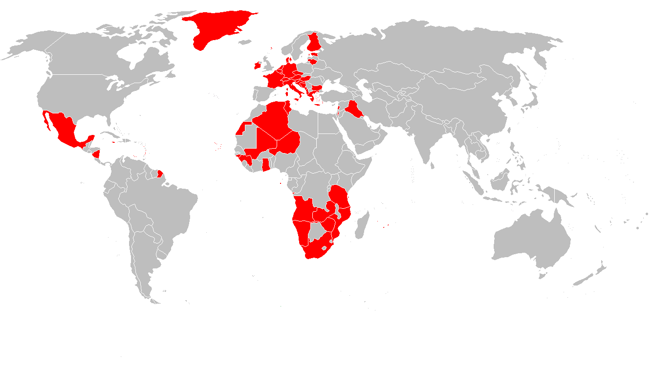 A map of states currently governed by member (red), consultative (pink), or observer (rose) parties of the Socialist International.